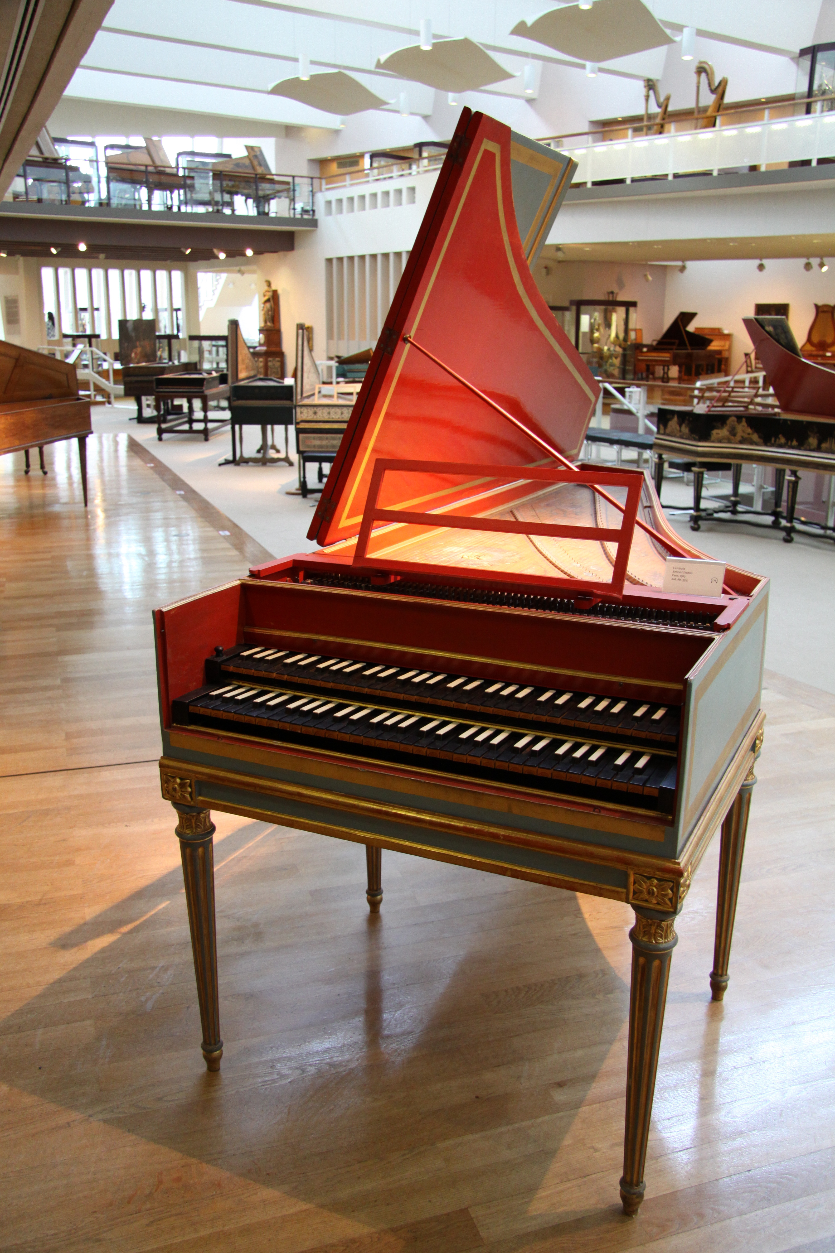 French harpsichord (by Benoit Stehlin Paris, 1767).